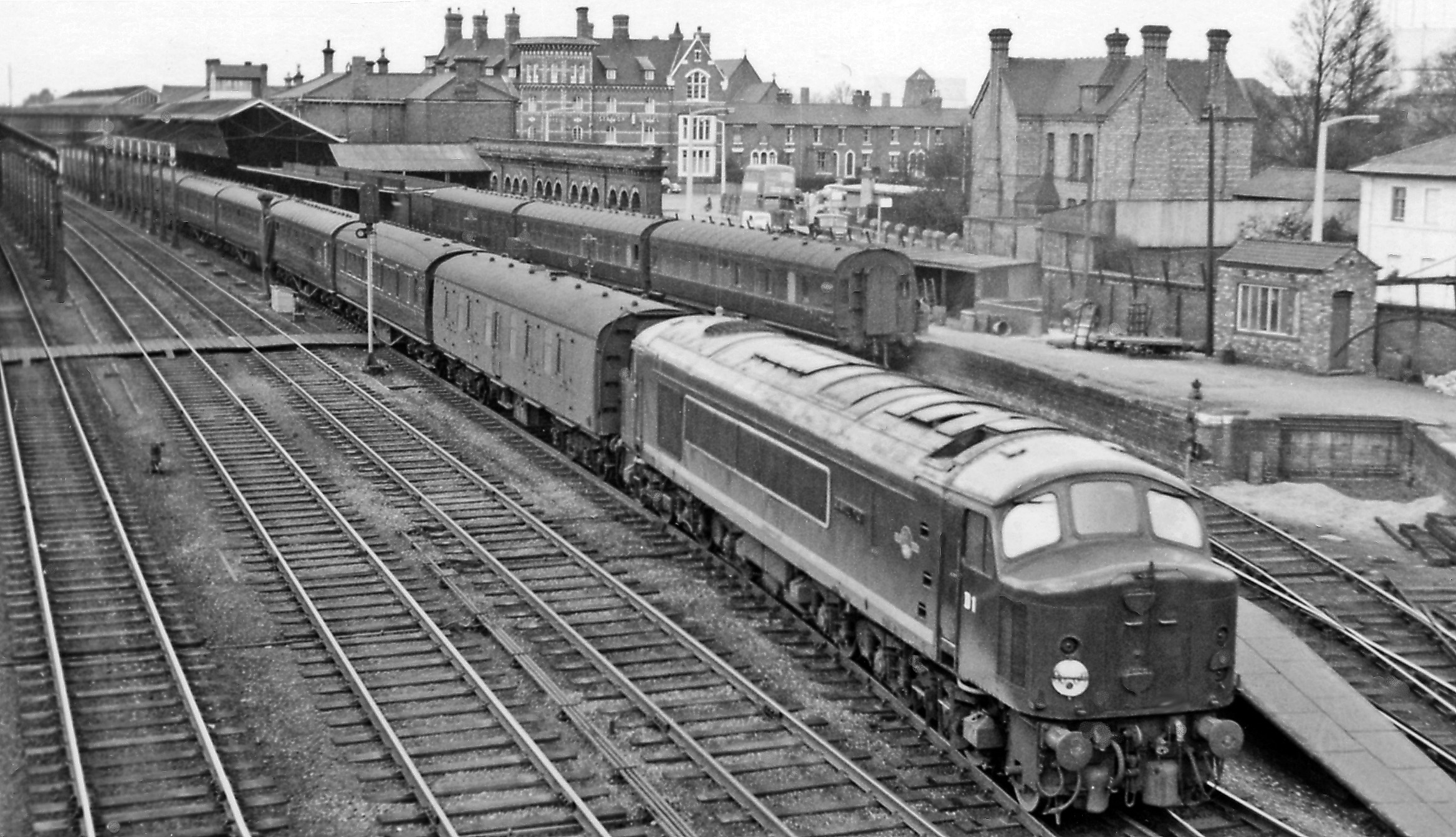 The first 'Peak' Diesel leaving Stafford on an Up express. View NW, towards Crewe etc. on the WCML. By 1960 many WCML expresses had been handed over to Diesel haulage: here No. D1 'Scafell Pike', the first BR/Sulzer 'Peak' class 2,300hp Type 4 1-Co-Co-1, pulls the 08.30 Carlisle - Euston out of Stafford station.